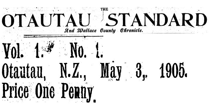 Otautau Standard and Wallace County Chronicle (Newspaper) logo circa 1905.